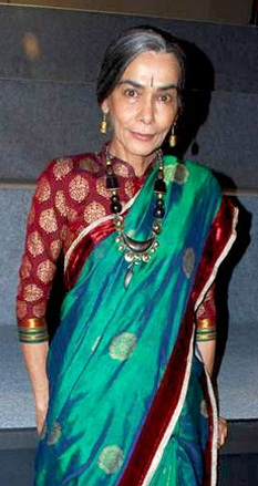 Surekha Sikri at Sony's Maa Exchange show launch